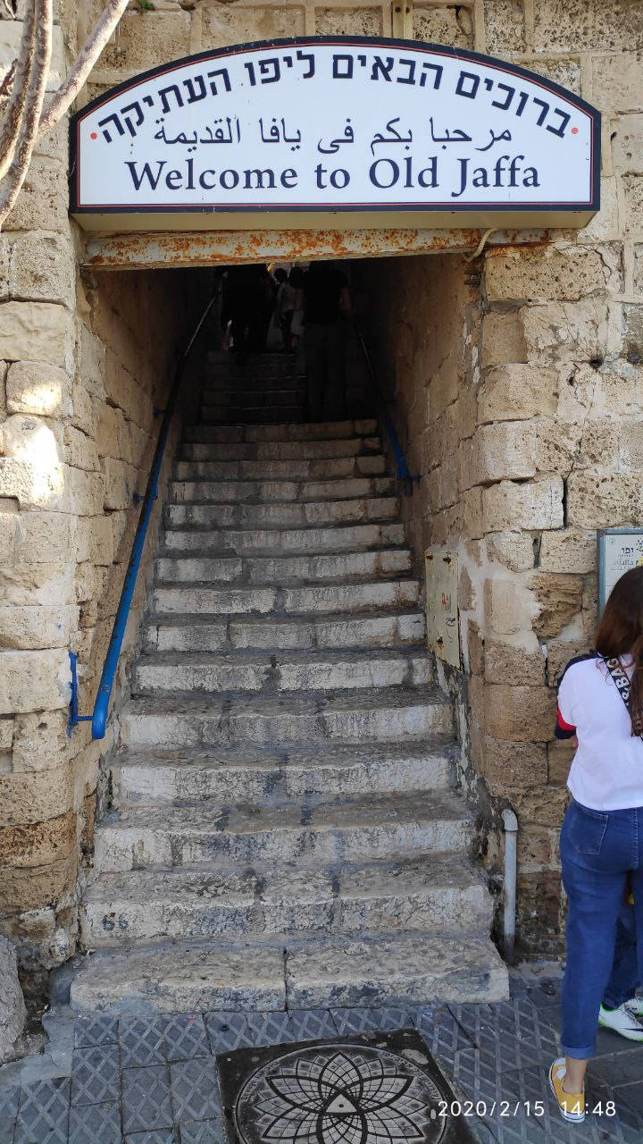 Old Jaffa, Simtat Mazal Sartan